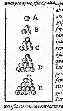 A diagram from Johannes Kepler's 1611 Strena Seu de Nive Sexangula, illustrating what came to be known as the Kepler conjecture.